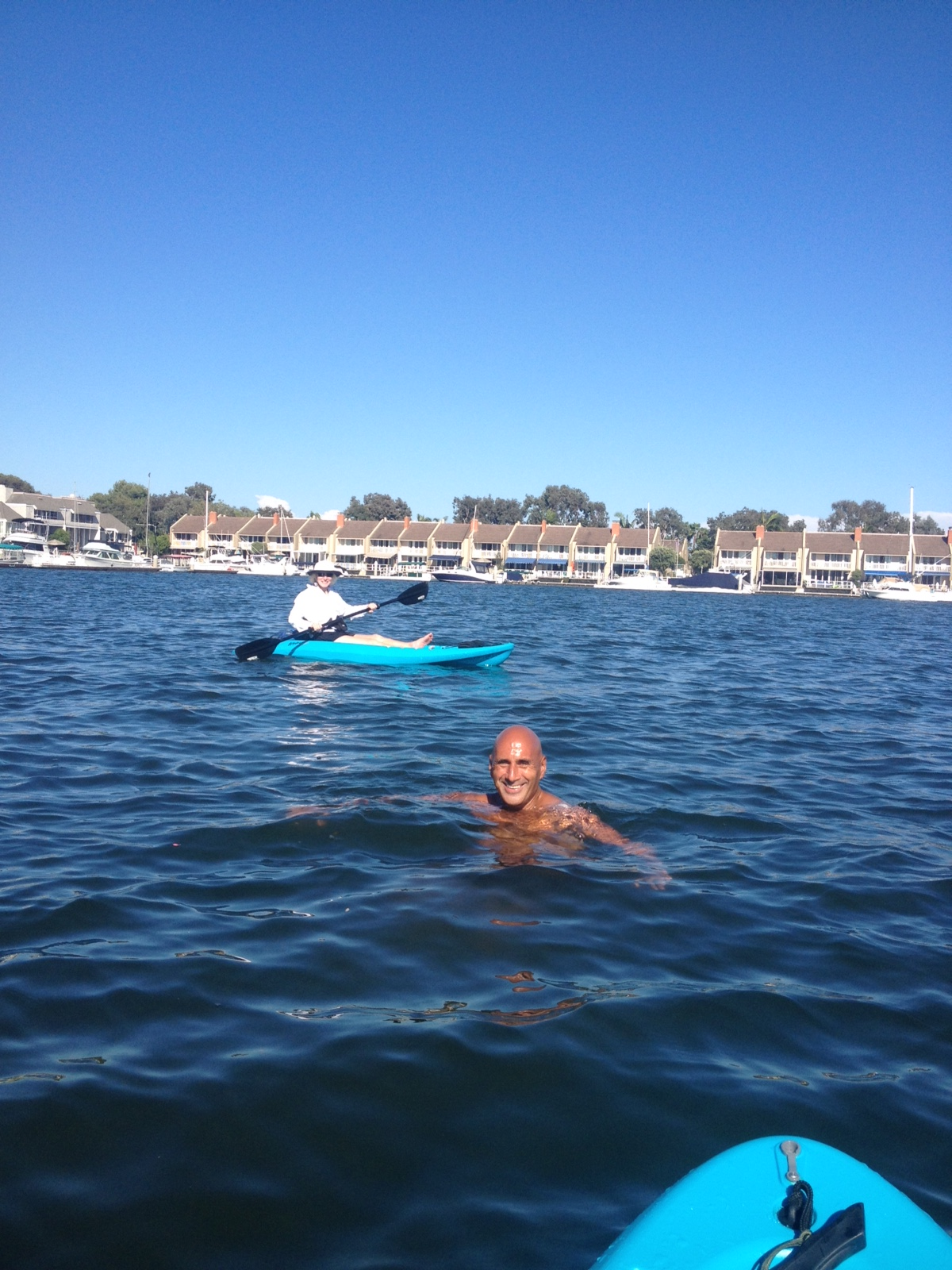 Huntington Harbour Huntington Beach California